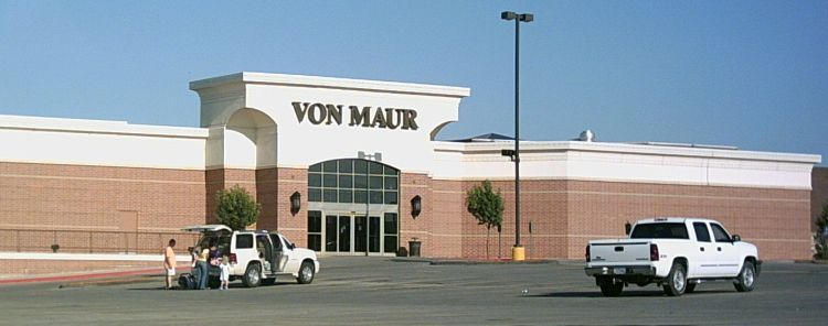 Exterior of the Von Maur store at Valley West Mall in West Des Moines, Iowa, photographed by User:Iowahwyman on August 7, en:2005.